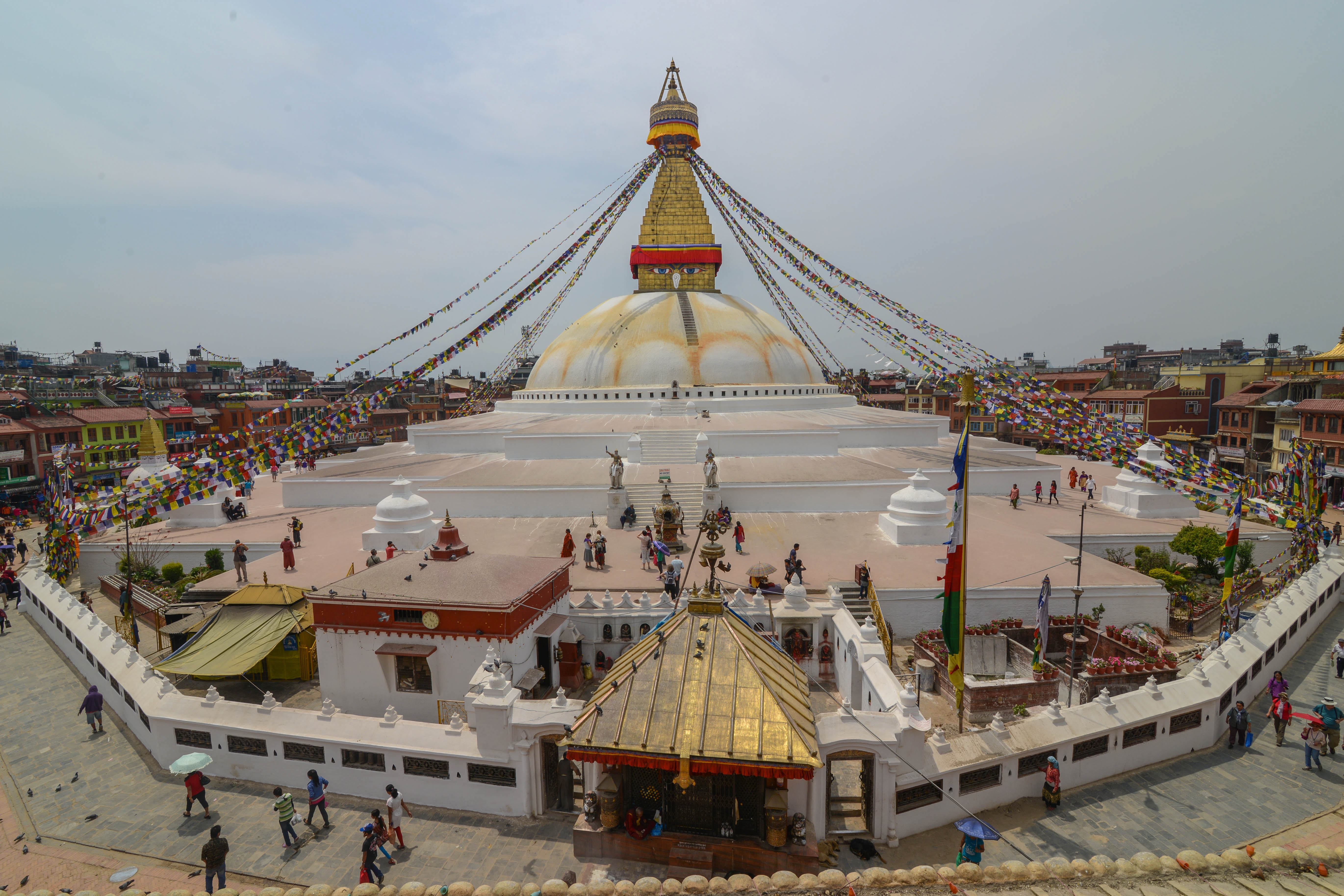 Boudhanath is one of the largest stupas in the world in Kathmandu, Nepal. It was built after the death of Lord Buddha